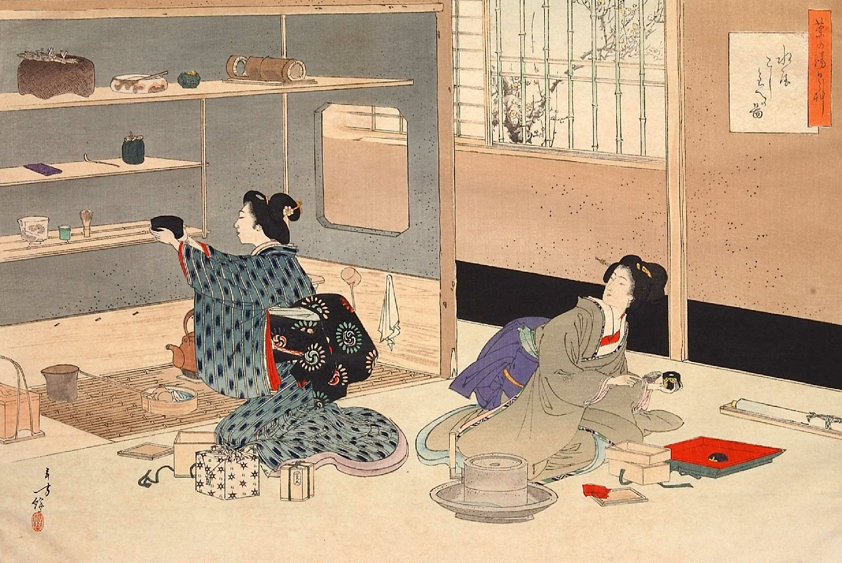 Making the washing place in the tea-ceremony room ready, from the series A Tea Ceremony Periwinkle, woodblock print